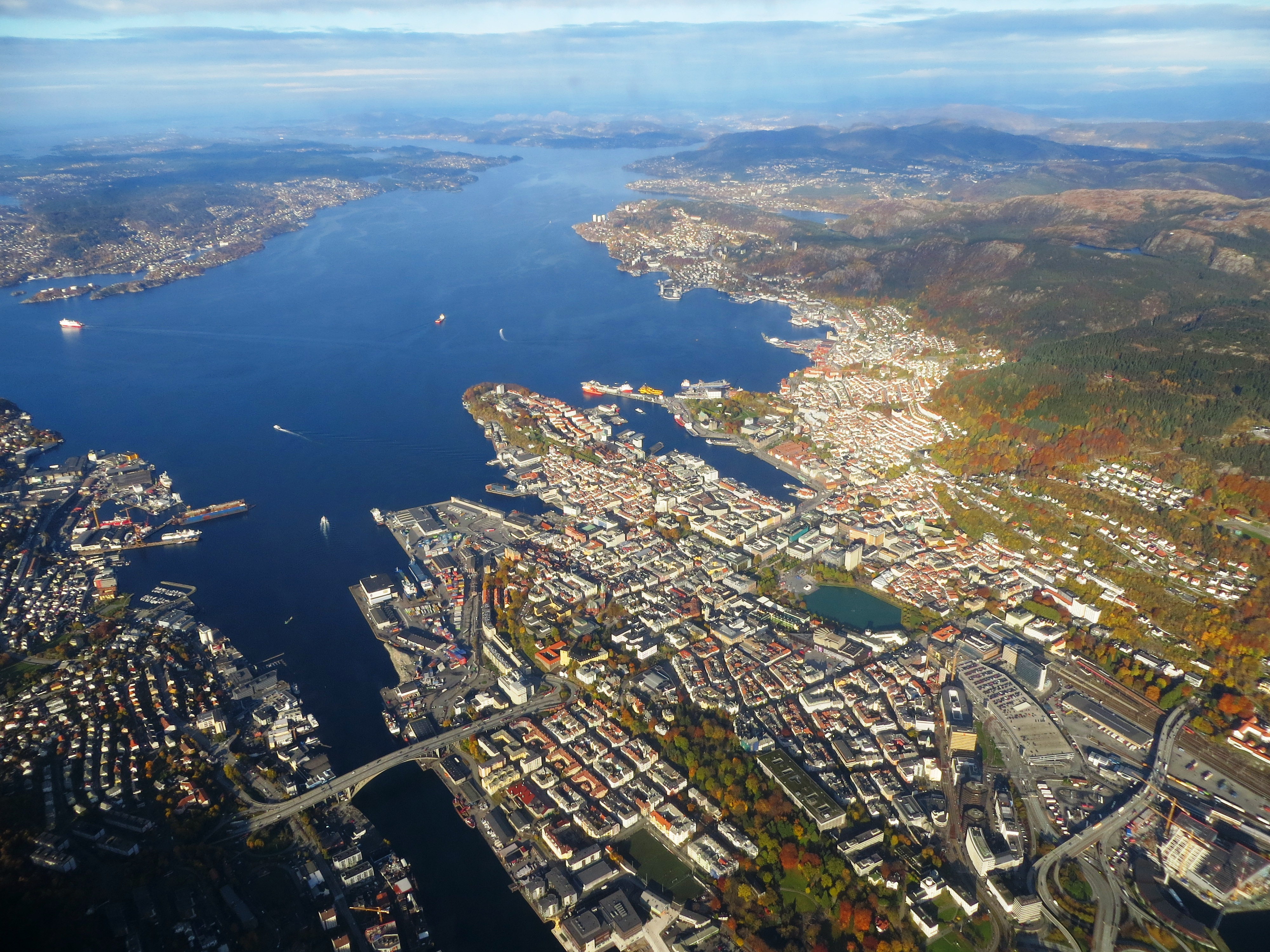 Aerial view of central Bergen, Norway.